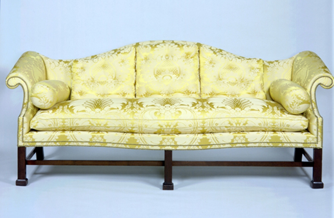 Chippendale Mahogany Camel-Back Sofa (ca. 1775-1800), attributed to Thomas Affleck, Philadelphia, Pennsylvania. Diplomatic Reception Rooms, Harry S. Truman Building, U.S. Department of State, Washington, D.C.